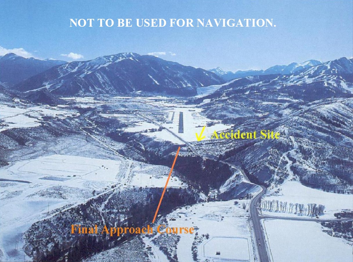 Image created by U.S. NTSB for Avjet Aspen crash investigation